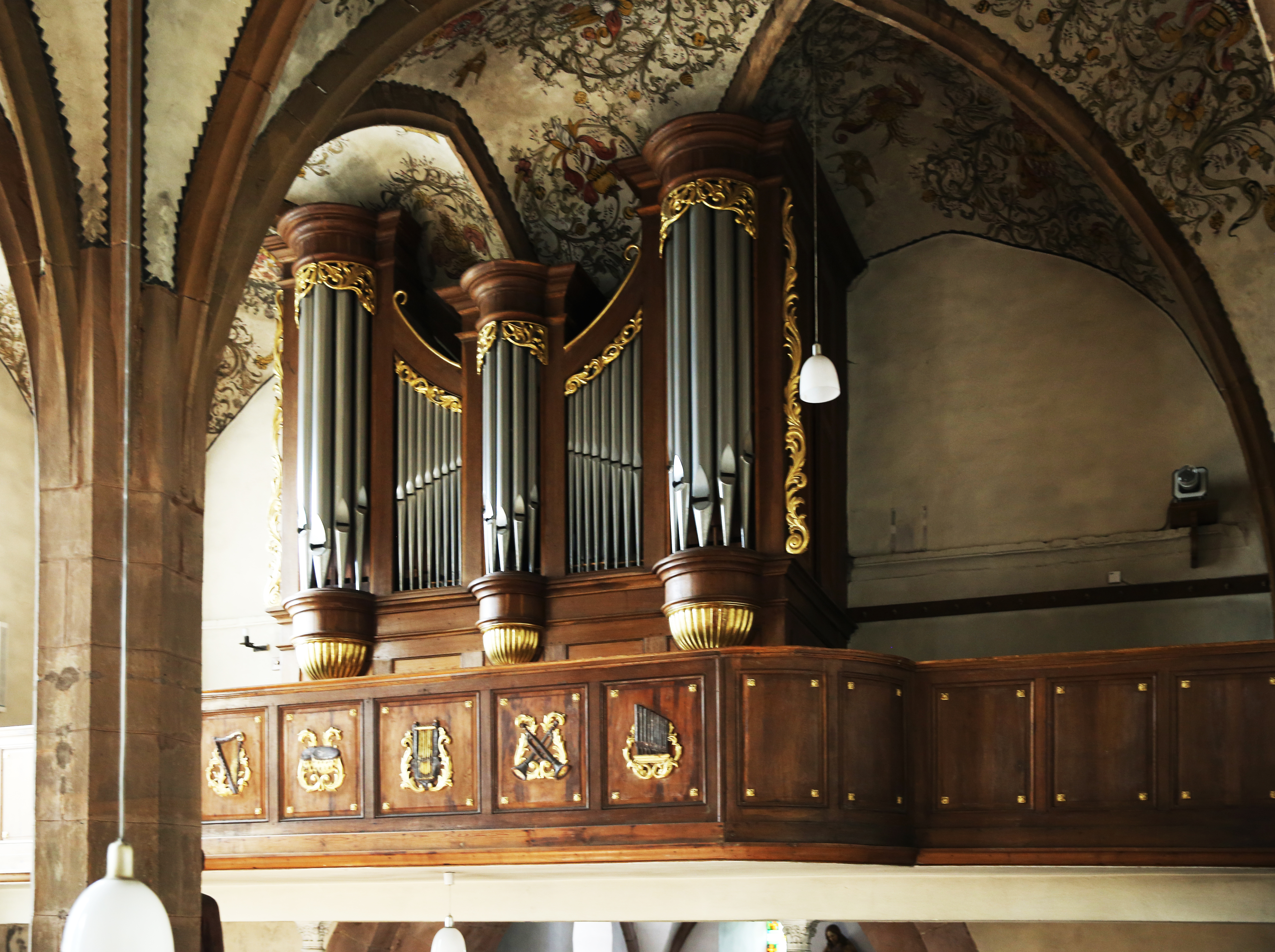 Organ (construction in 1856), at the former Catholic Parish Church St. Viktor, Hochkirchen (Nörvenich), Germany